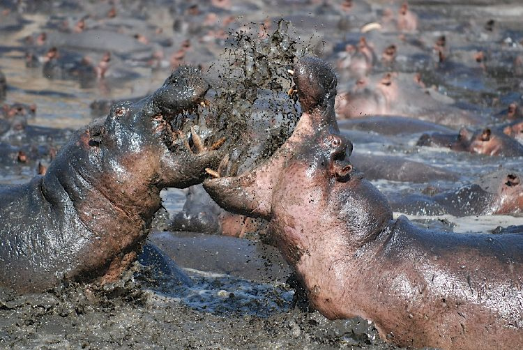 Hippo fight, Katavi National Park, Tanzania